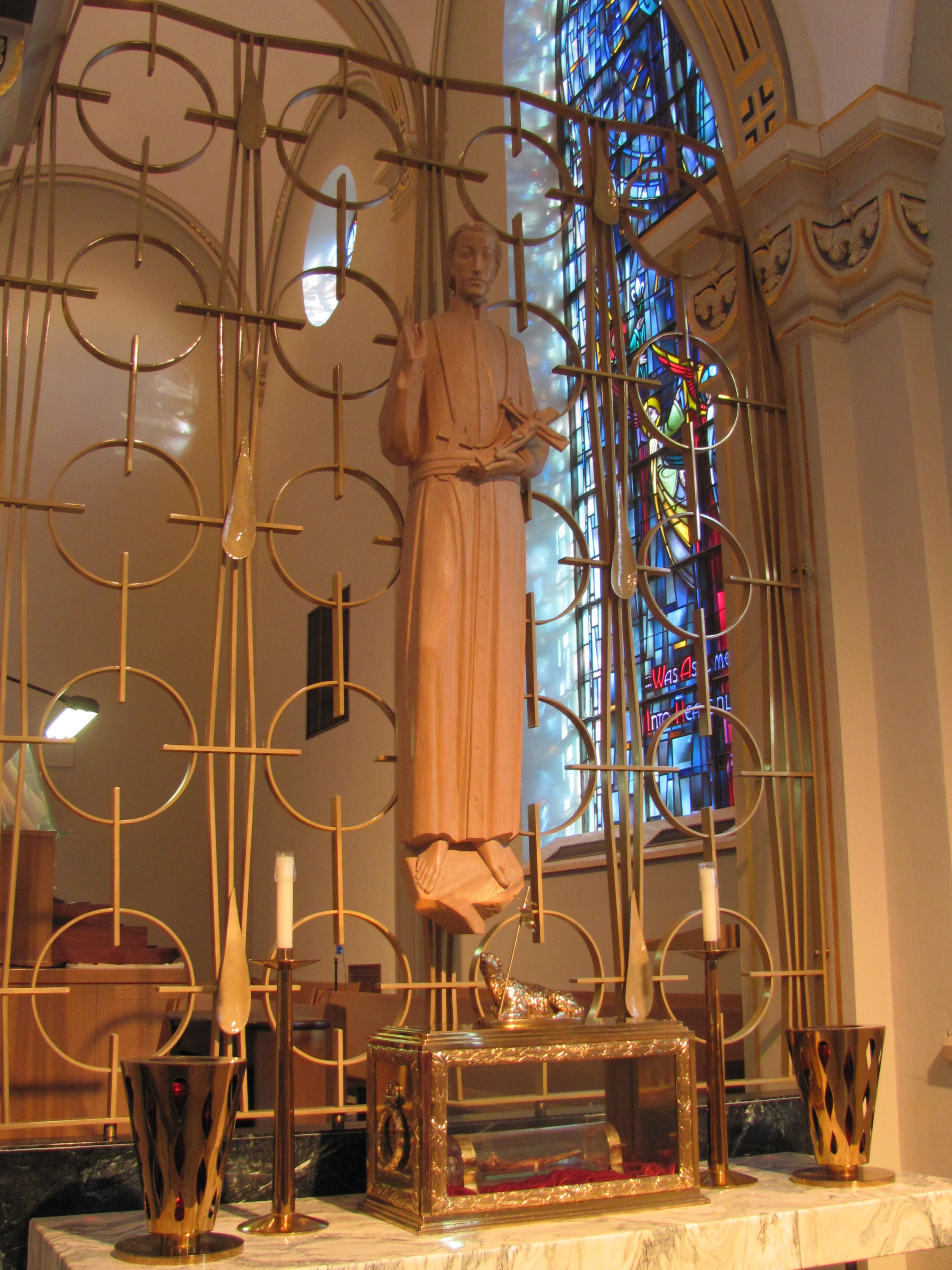 St. Charles Senior Living Community, Carthagena, Ohio; Chapel of the Assumption; Shrine of St. Gaspar del Bufalo, founder of the Missionaries of the Precious Blood. In the reliquary is a portion of the forearm of St. Gaspar.